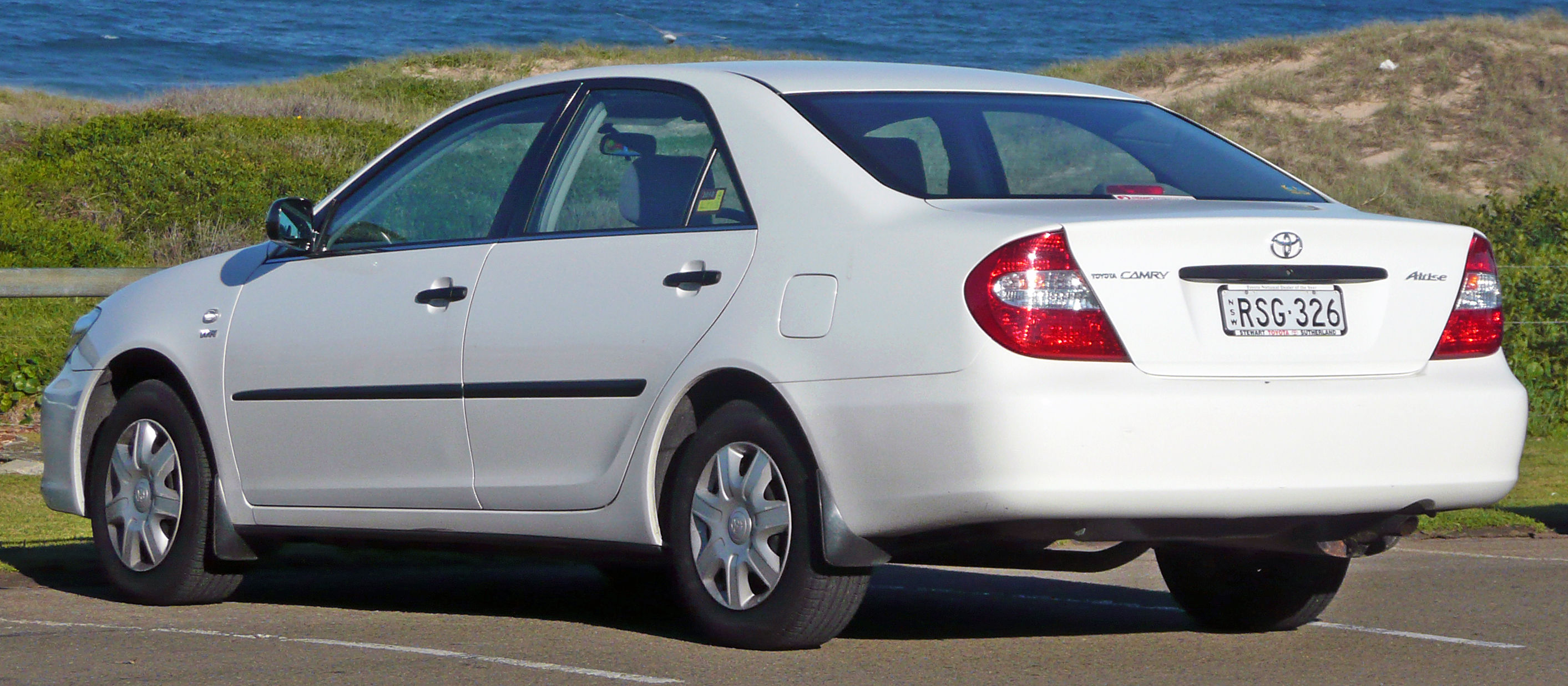 2002–2004 Toyota Camry (ACV36R) Altise sedan. Photographed in Cronulla, New South Wales, Australia.